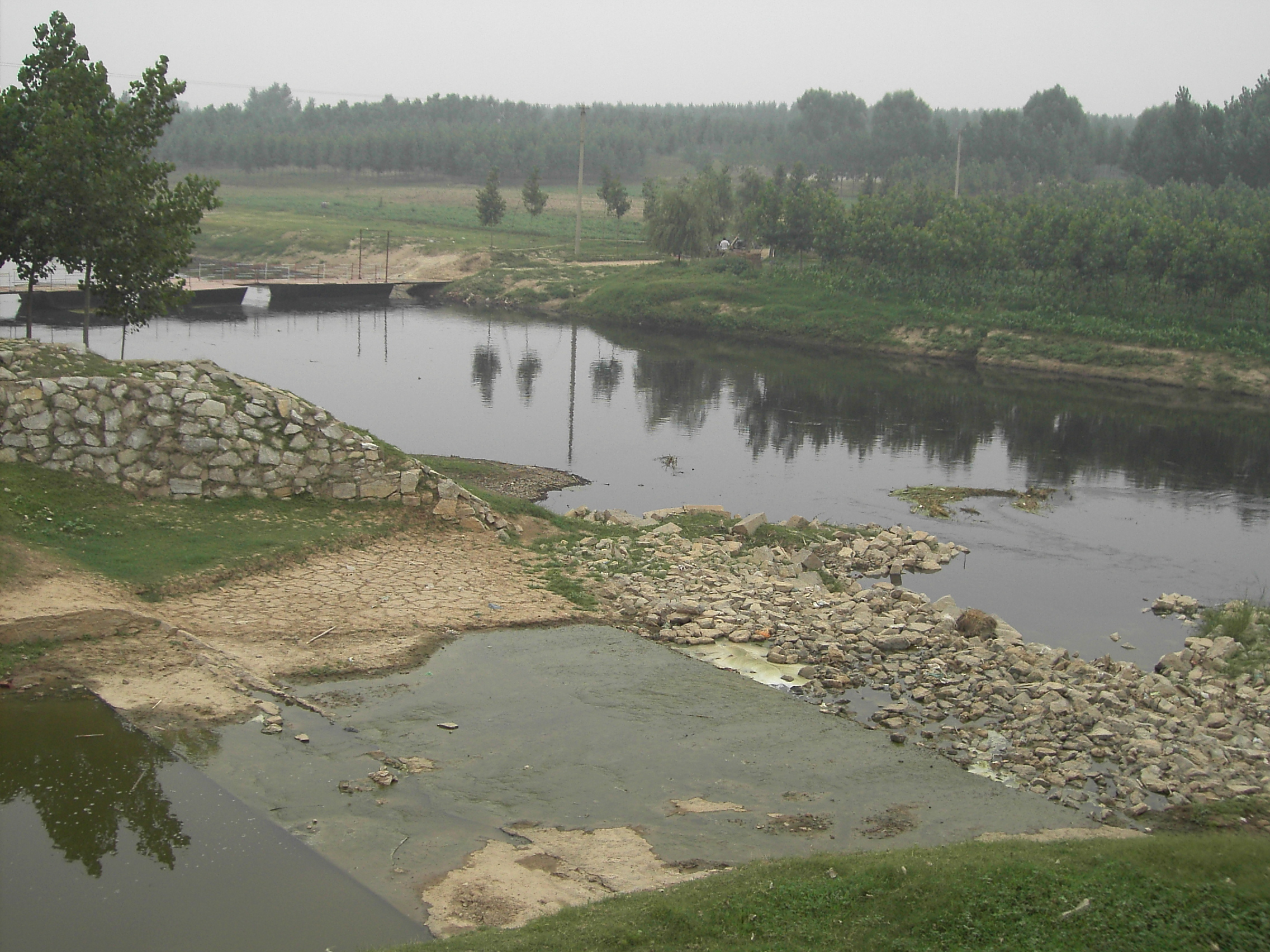 Author - Tomtom08, Spring 2006, user's own work.